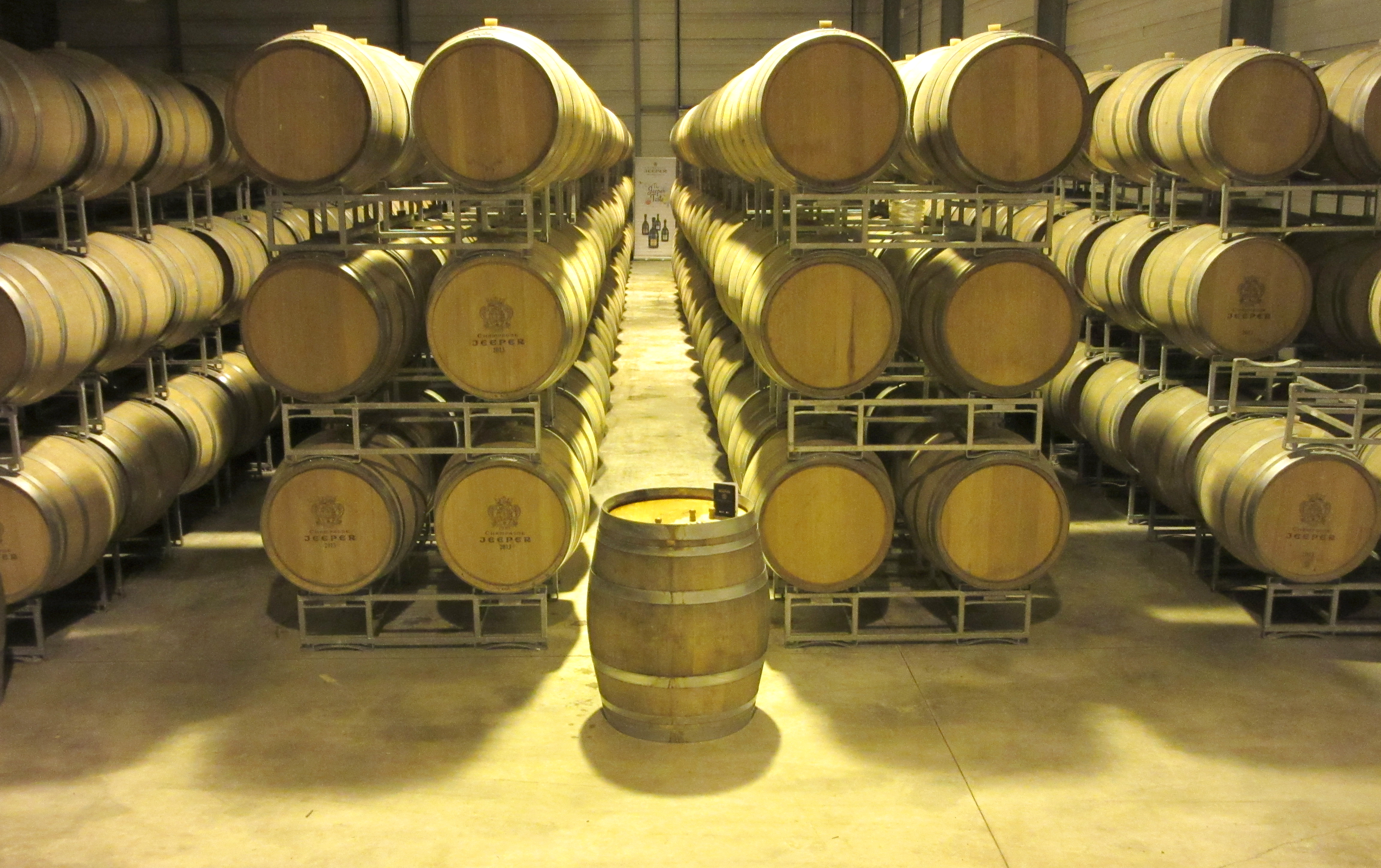 Jeeper Champagne